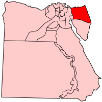 Map of Egypt showing Shamal Sina' (South Sinai) governorate. Made by User:Golbez based on PD maps.